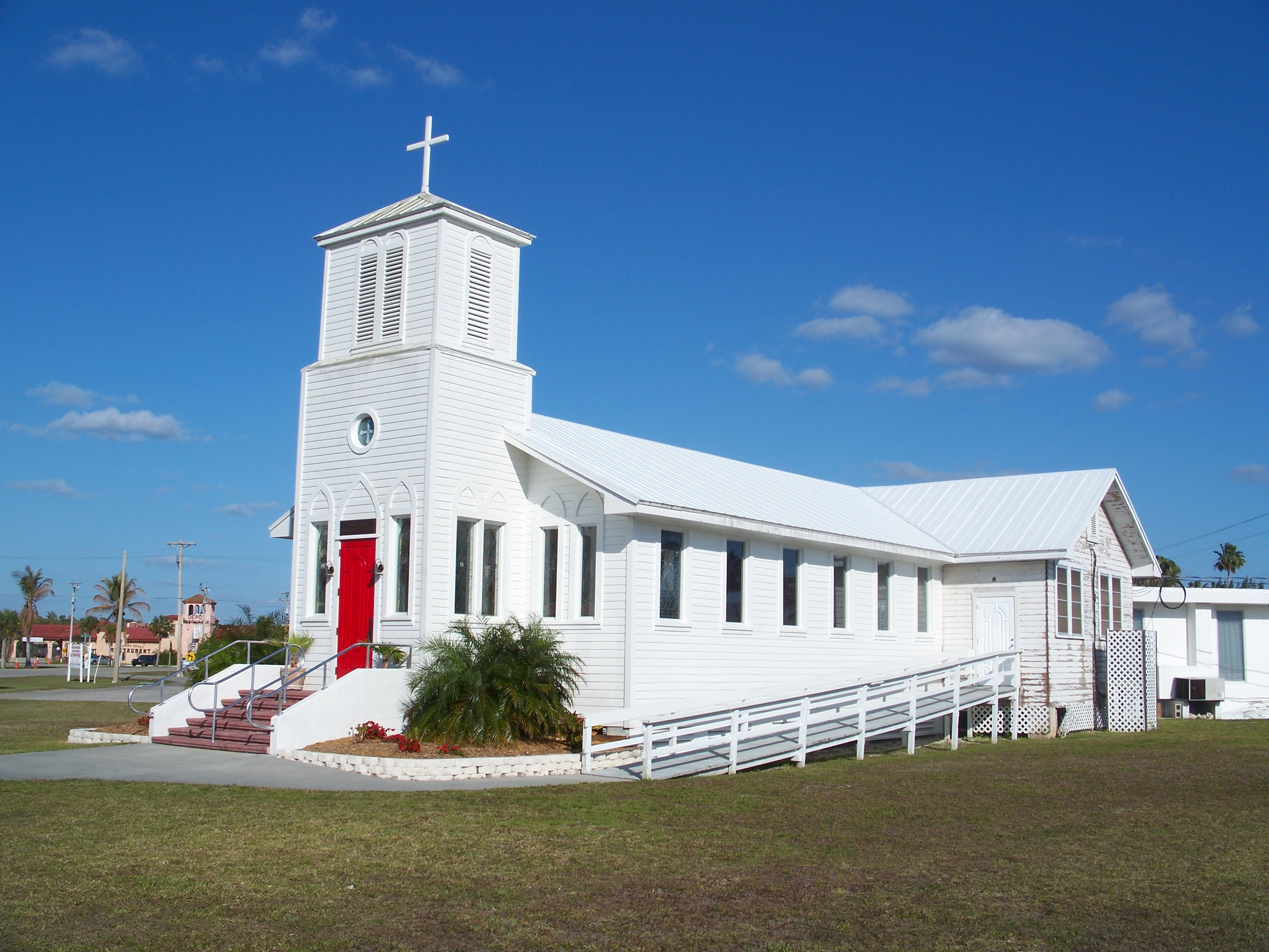 Everglades City, Florida: Community Church